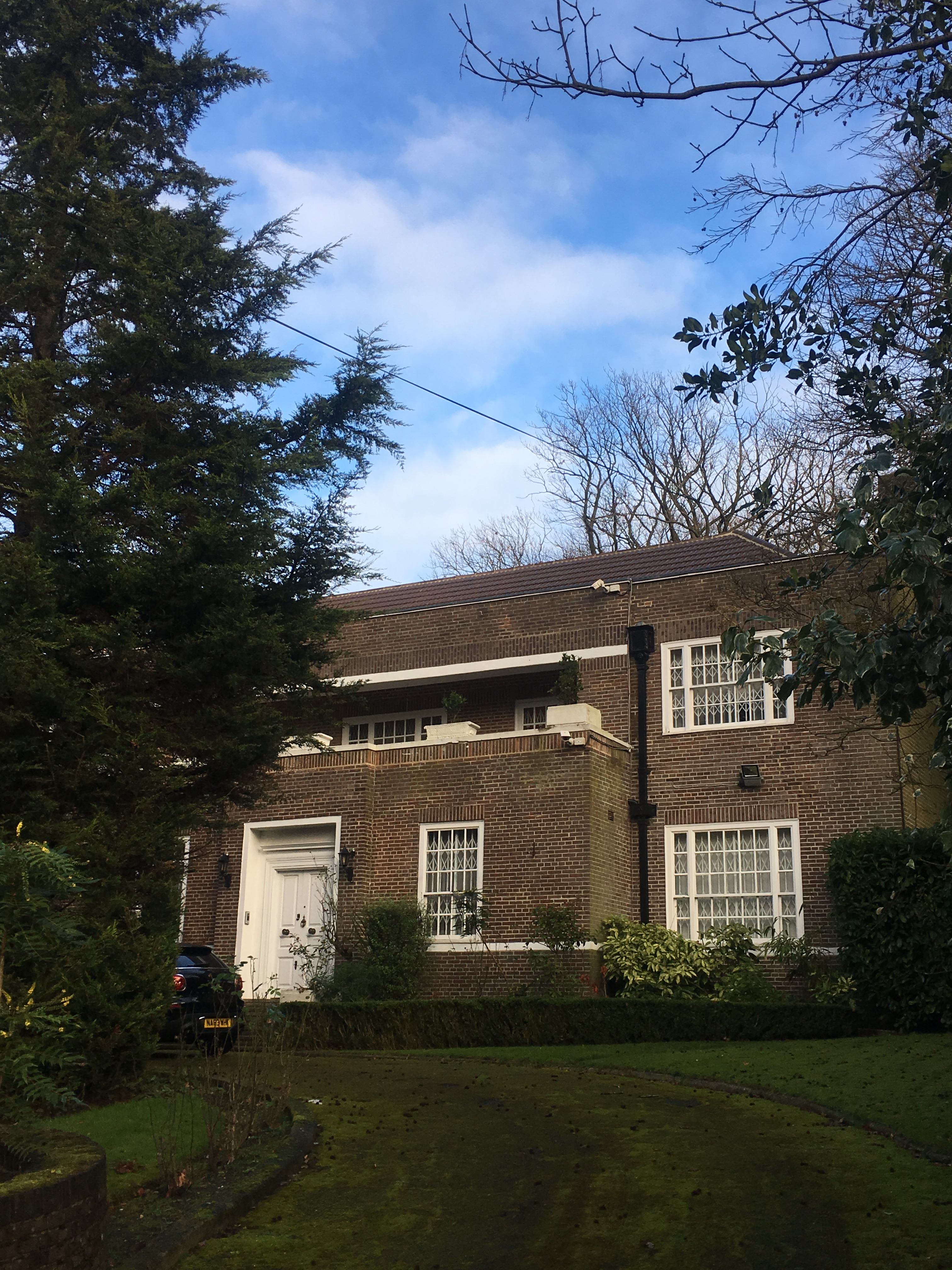 Spaniards Mount, Winnington Road, N2